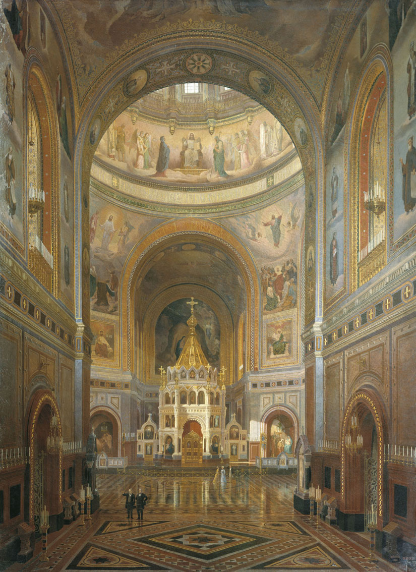 Fyodor Klages (1812-90). "Interior of the Cathedral of Christ Saviour in Moscow" (1883).